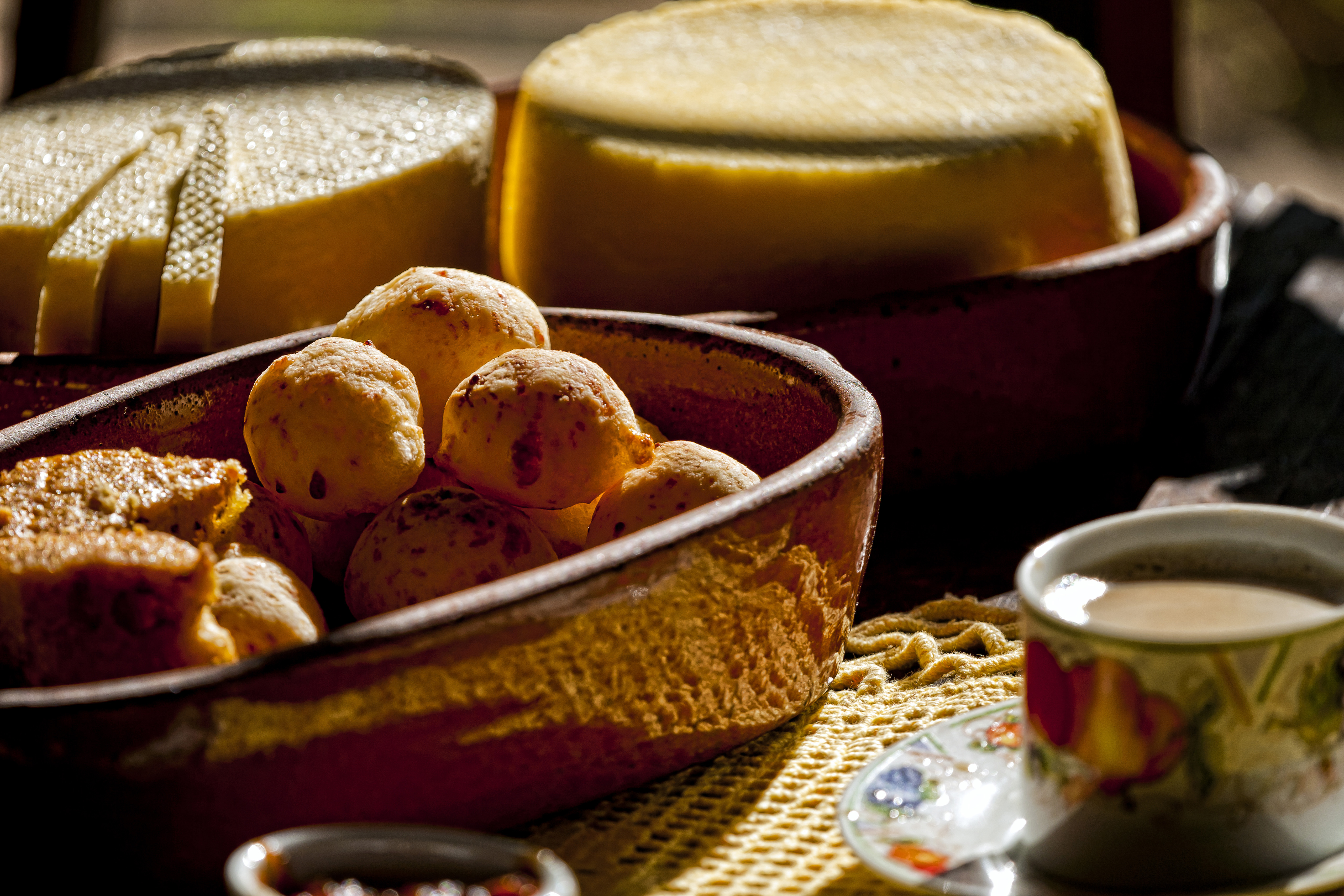 Cheese buns, cheese breads, chipá, or cuñapé, are a variety of small, baked, cheese-flavored rolls. The cheese bread is a typical recipe of the Brazilian state of Minas Gerais. Its origin is uncertain; it is speculated that the recipe has existed since the eighteenth century in Minas Gerais, but it became really popular in Brazil since the 1950s